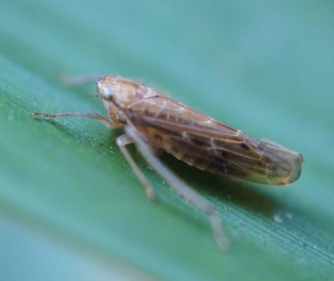 Abrus langshanensis resting on leaf of bamboo.